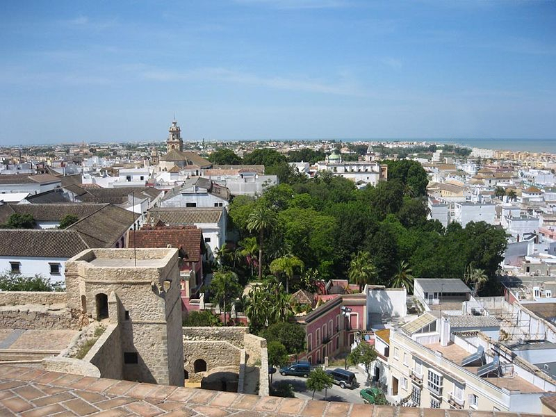 Deri